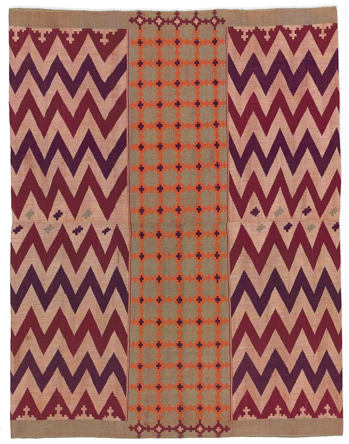 Tube shirt (patadyong) from the Philippines, Sulu Archipelago, 20th century, silk, tapestry weave, Honolulu Museum of Art accession 5882.1